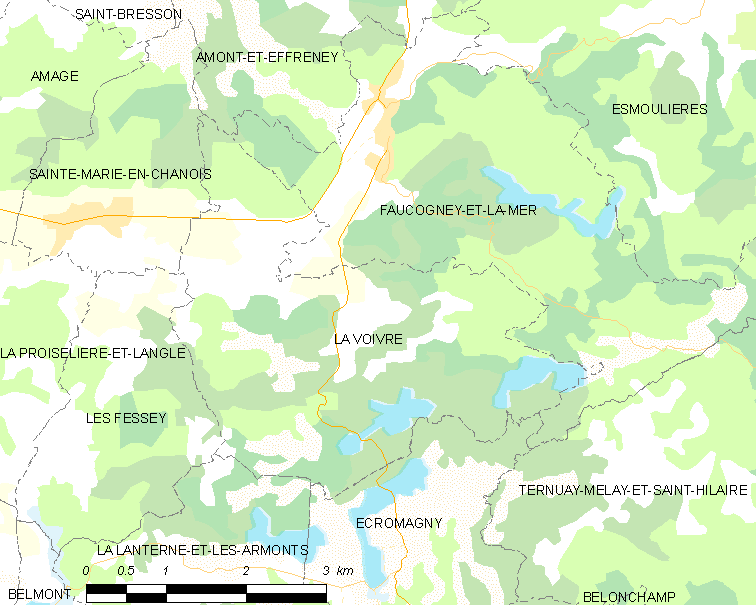 Map of French municipality